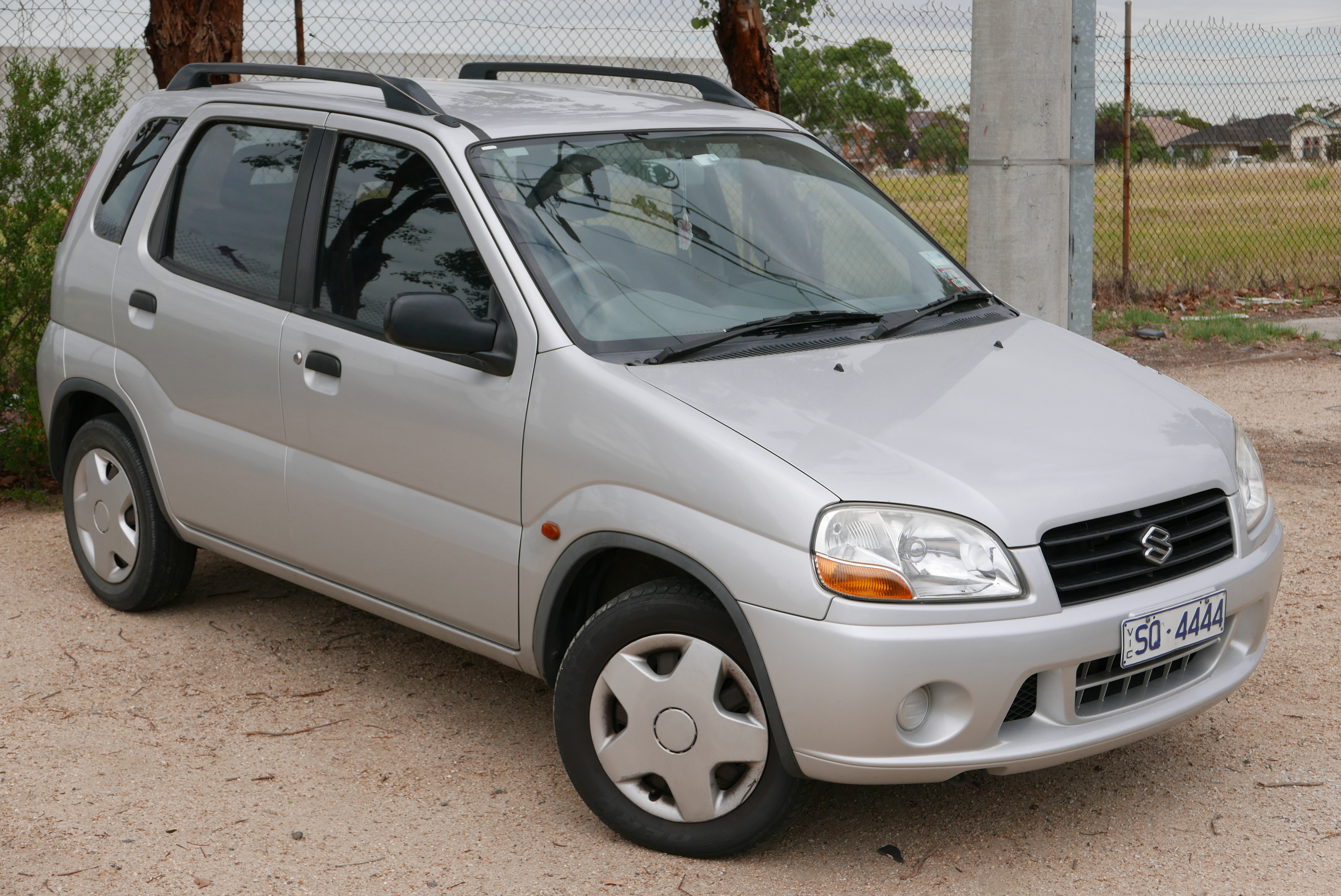 2001 Suzuki Ignis (RG413) GL 5-door hatchback. Photographed in Pascoe Vale, Victoria, Australia. Vehicle registration enquiry resultsJurisdictionVictoriaRegistrationSQ4444Chassis codeJSAFHX51S00105397Engine codeM13A1031217Compliance date2001-01Year of manufacture2001